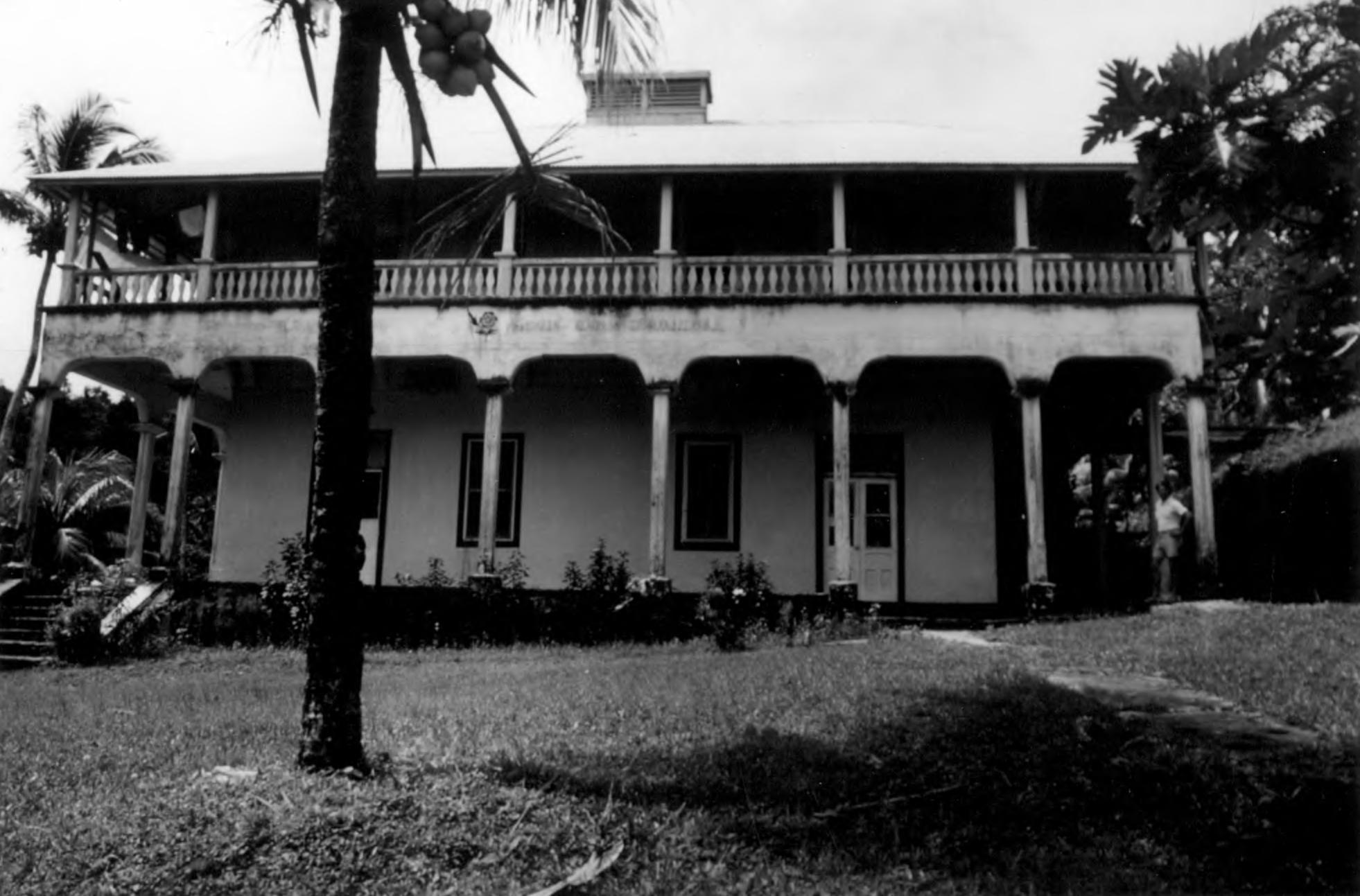 The historic Atauloma Girls School (built 1900), located in Afao village, American Samoa, is listed on the United States National Register of Historic Places.